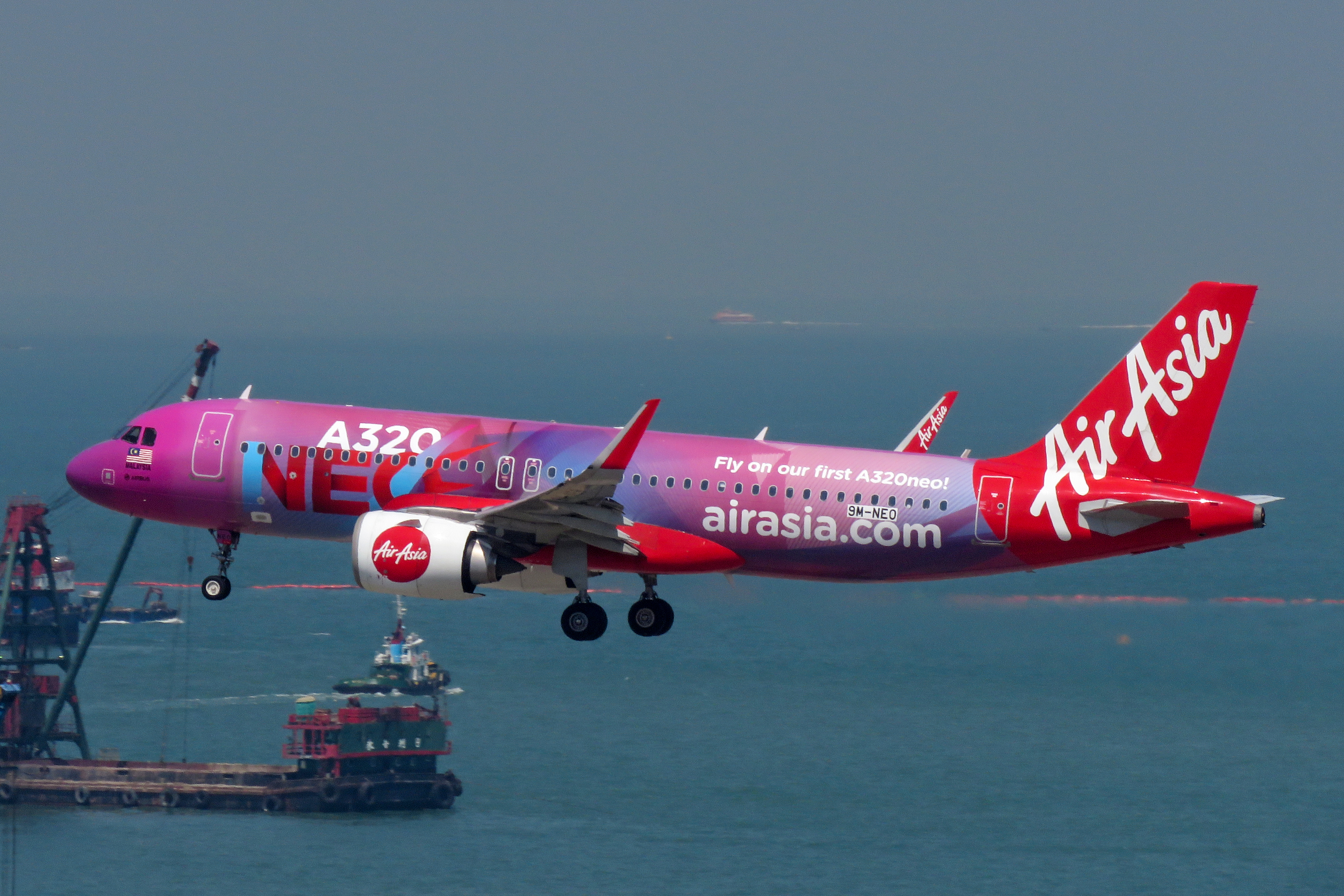 Red Cap 138 from Kuala Lumpur. Yes, I met this fellow in Kunming before.